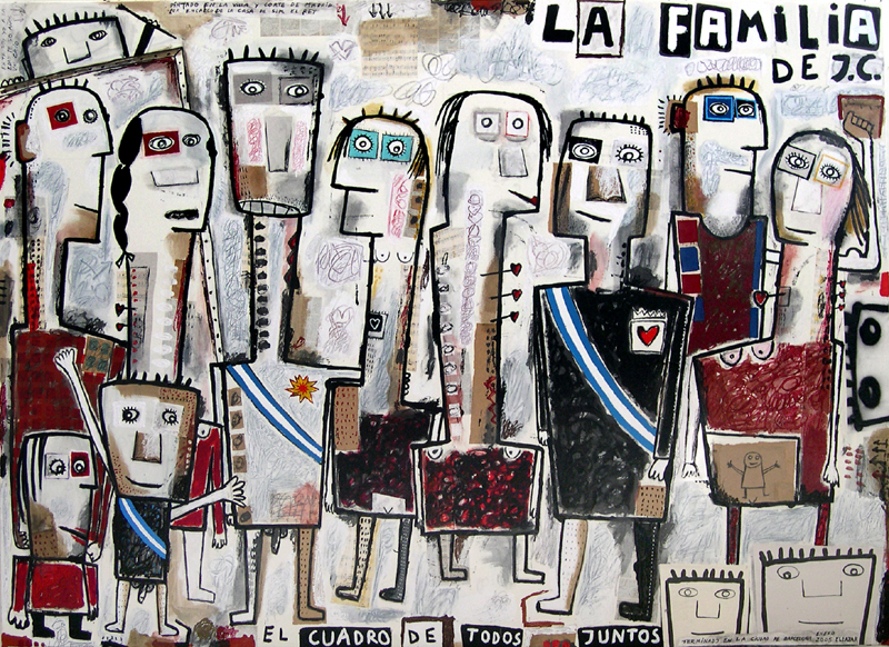 Real Families: The Family of J.C.